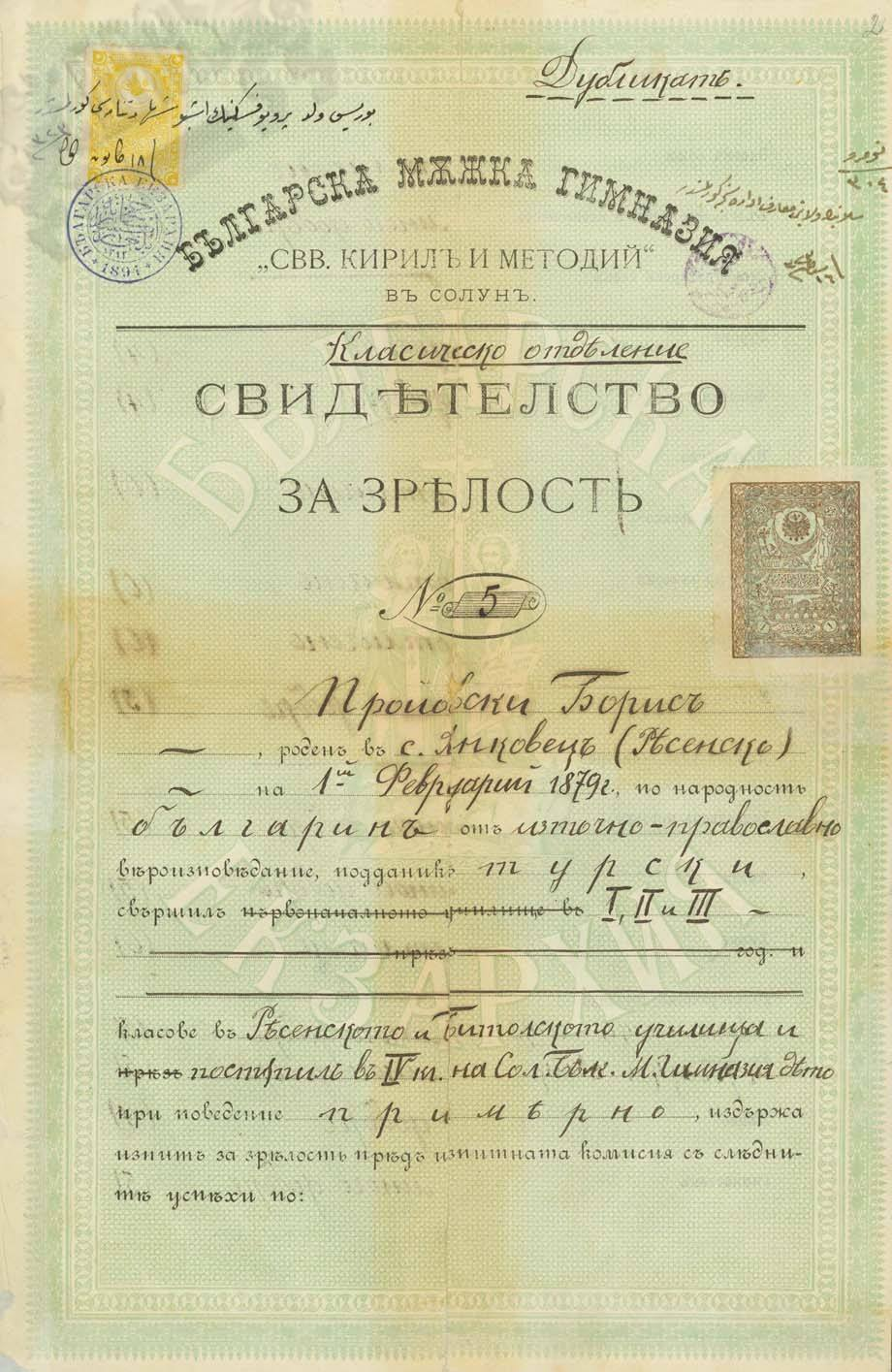 Boris Proevski Solun Diploma